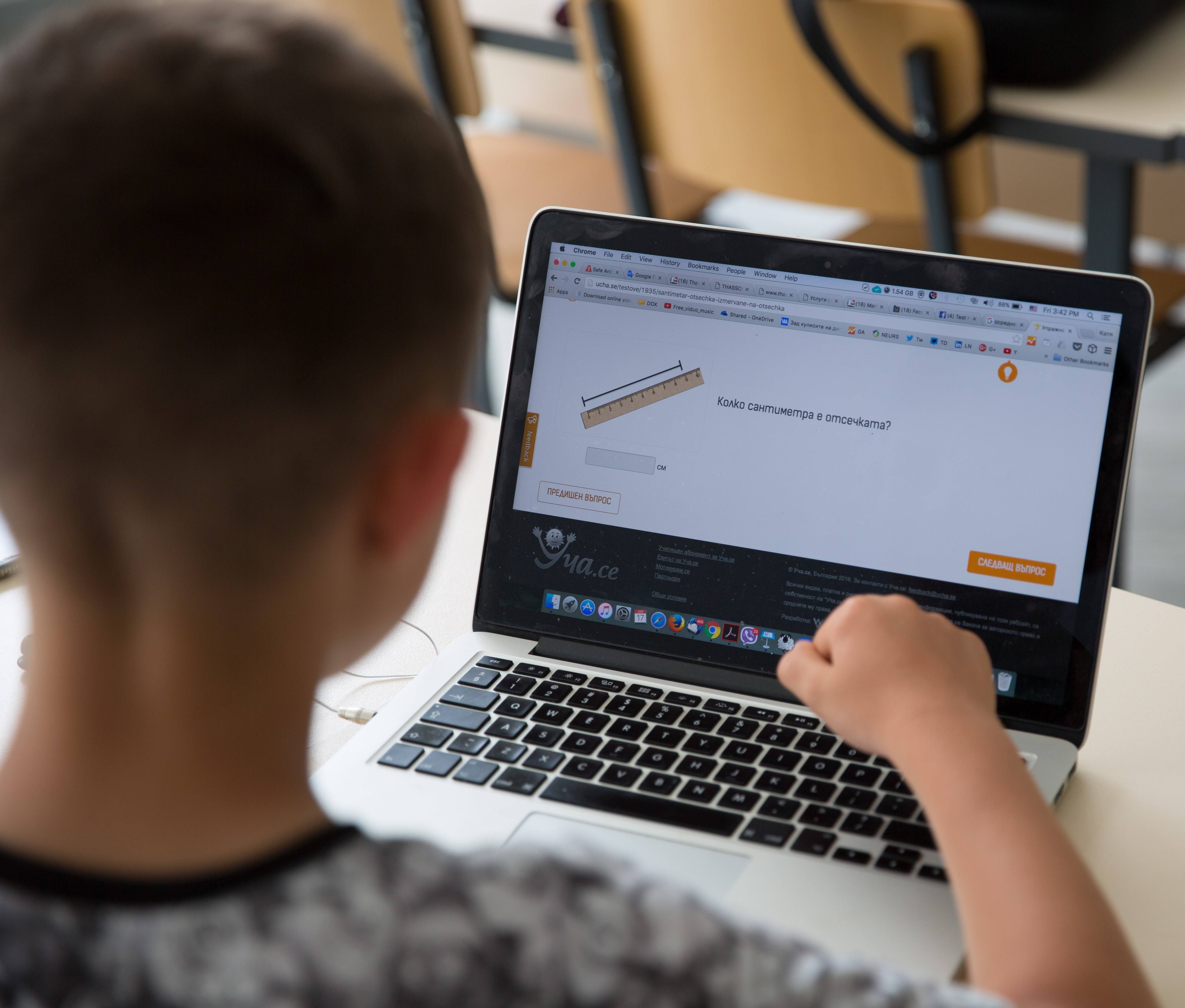 Уча.се потребители ползване